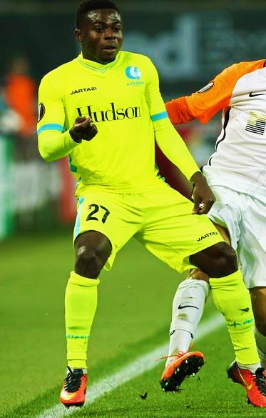 Moses Simon